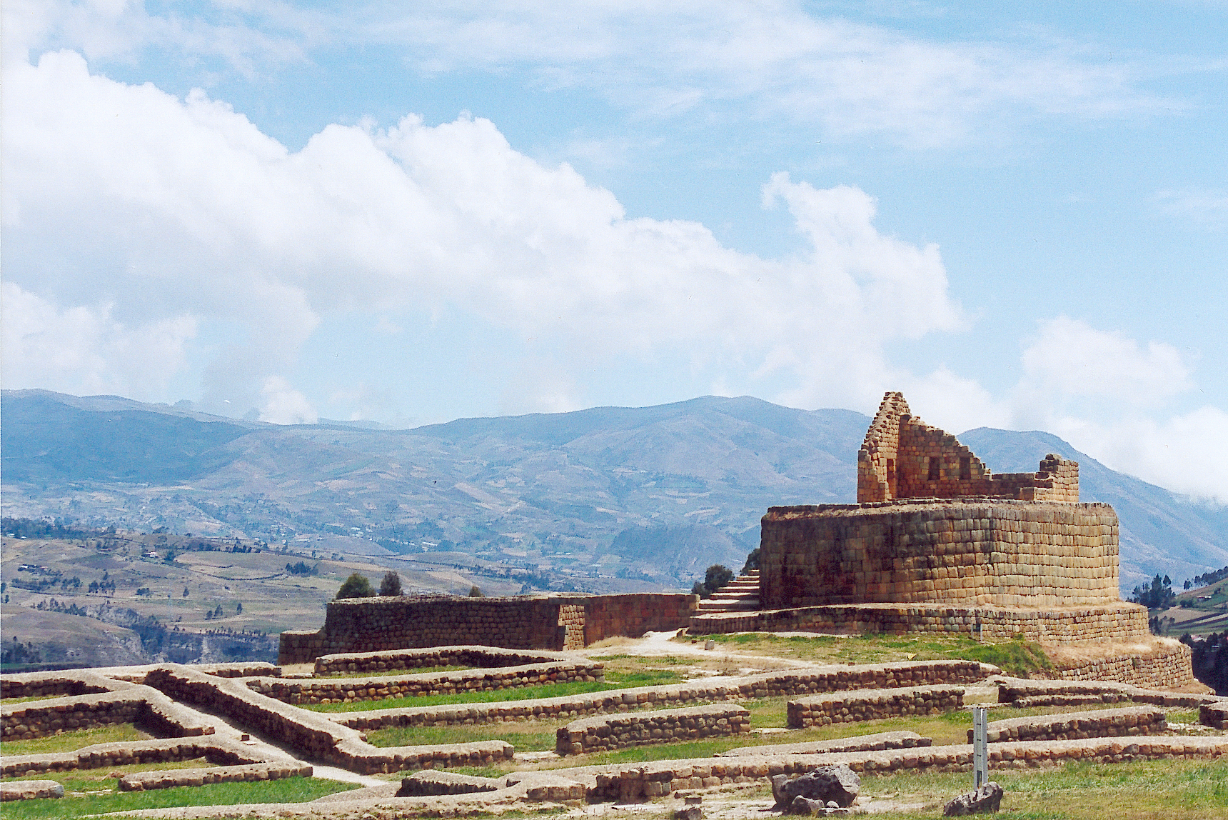 Ecuador, Ingapirca Inca ruins, in the province of Cañar (3200 m above sea level)